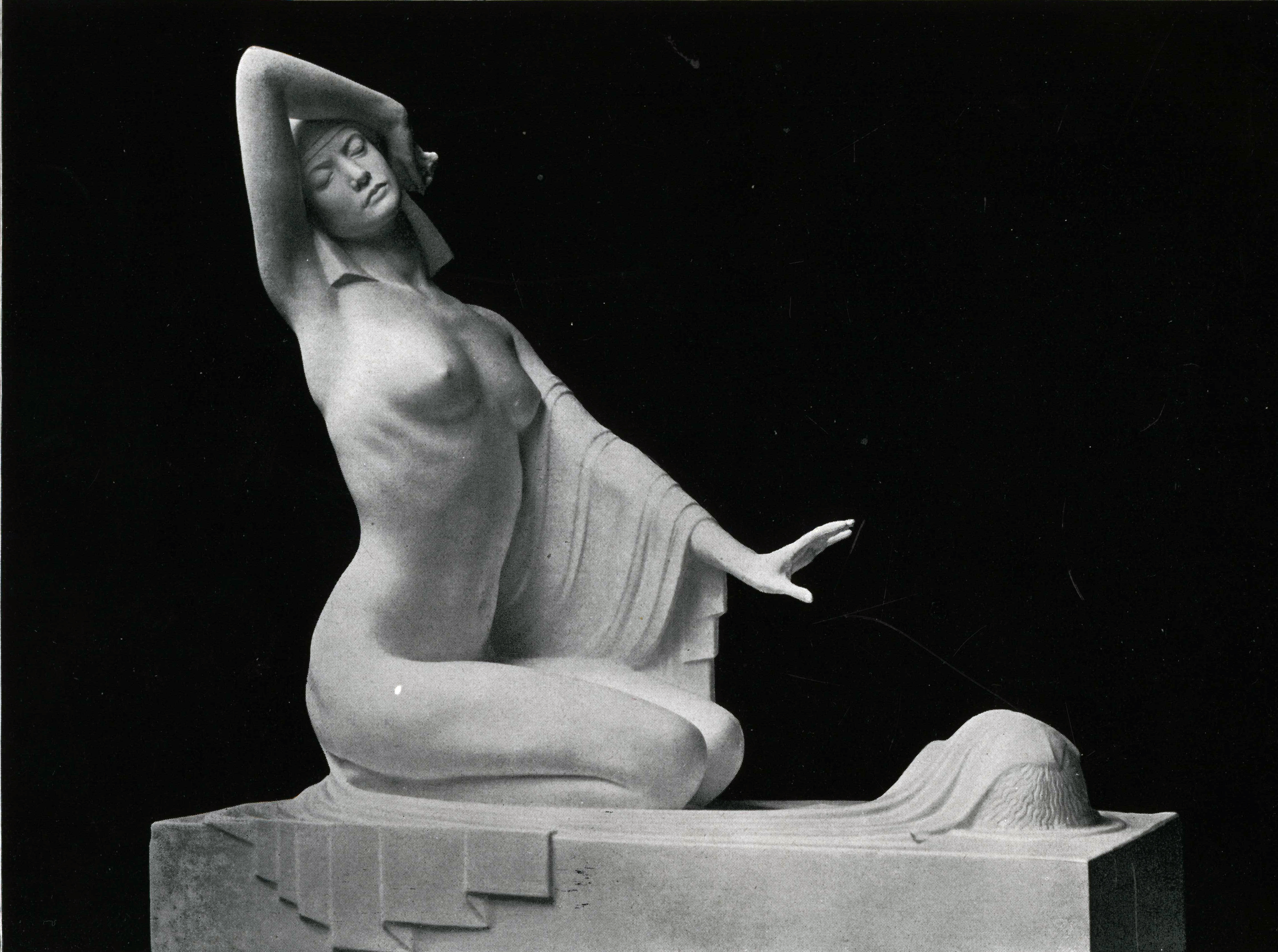 Photograph of Sculpture 'Salome' from German Hans Dammann (1867-1942), earlier than 1913. Scanned from the German journal 'Reclams Universum' Vol. 28.2 (1912), between p. 153/154 by Bibhai.